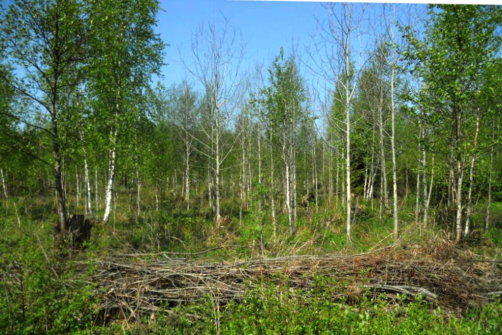 Lighting of young forest with felling debris.